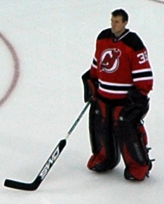 Scott Clemmensen before a homegame against Washington